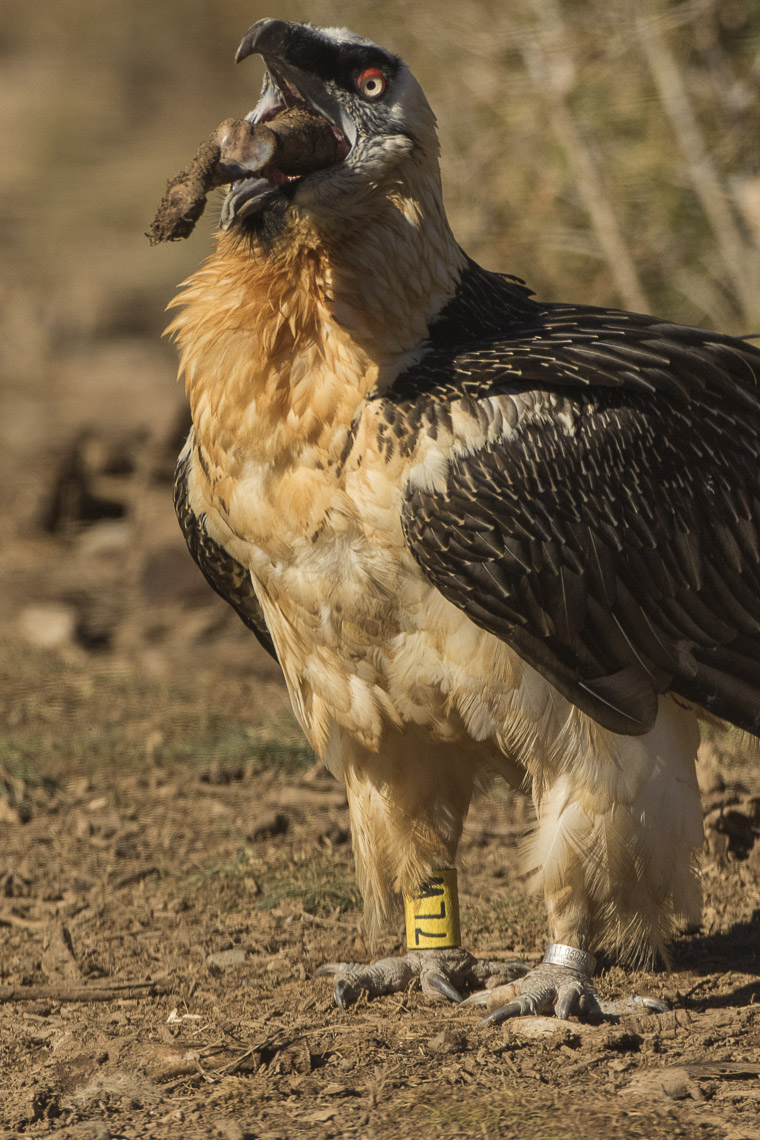 Bearded Vulture swallowing a big bone- Catalan Pyrenees - Spain_MG_4577